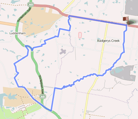 Outline of Commonweath Owned Land for Western Sydney Airport at Badgerys Creek